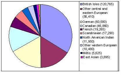 Regina ethnicities according to the 2001 Canada Census